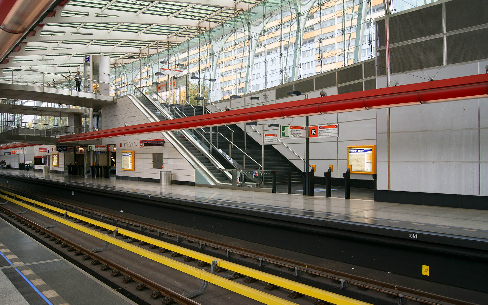 Prague metro, Strizkov station